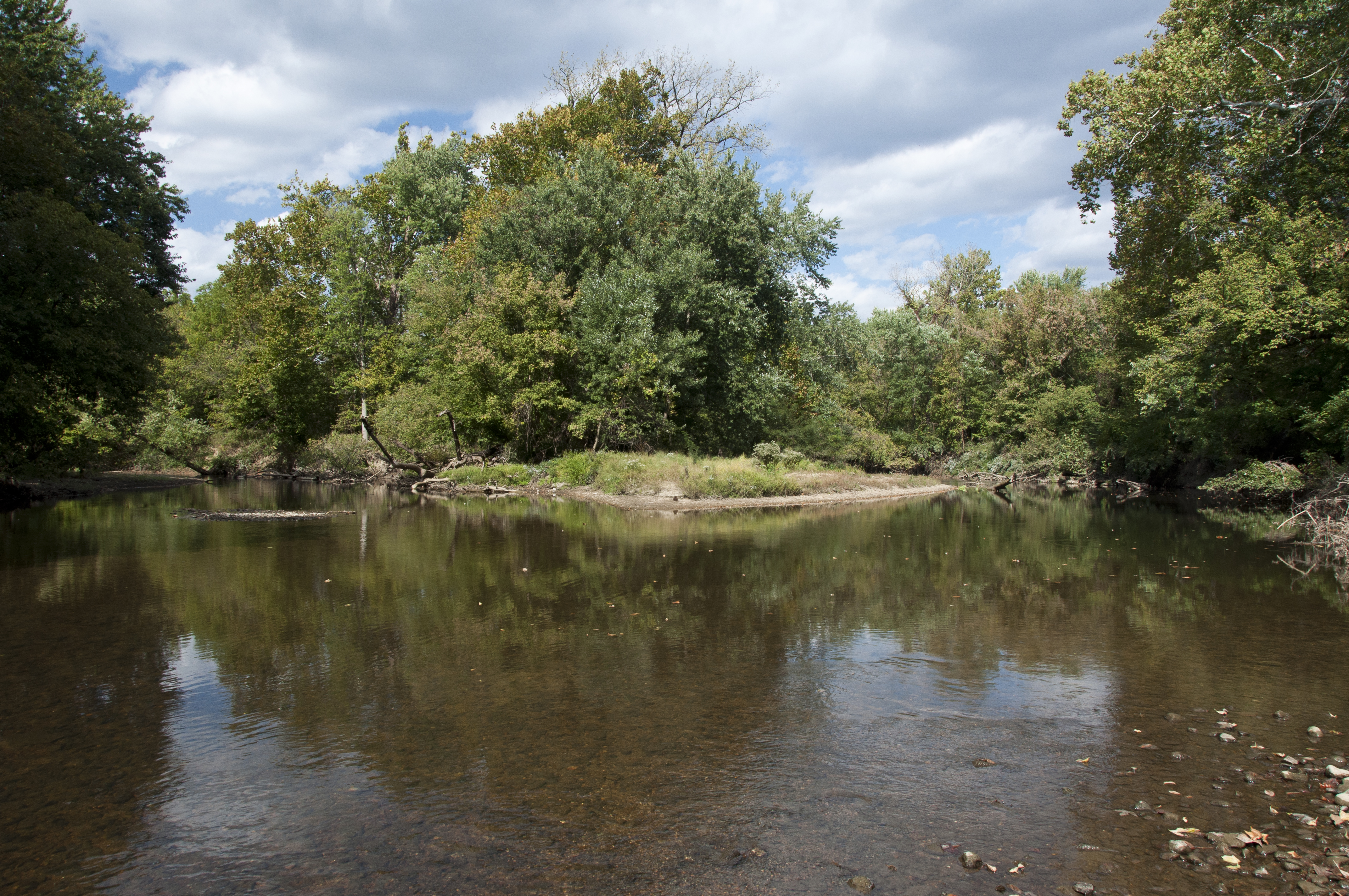 The confluence of Big Walnut Creek (after merging with Blacklick Creek) and Alum Creek at Three Creeks Metro Parks (Columbus, Ohio). The water level of all the creeks in the area were especially low. The closest USGS monitoring gauge of Big Walnut Creek (which is before the confluence) in the past year (365 days) had measured the water level of Big Walnut Creek as high as 7.55ft where on the day I went it was 3.57ft. allowing me to get into the Creeks in the area at points.